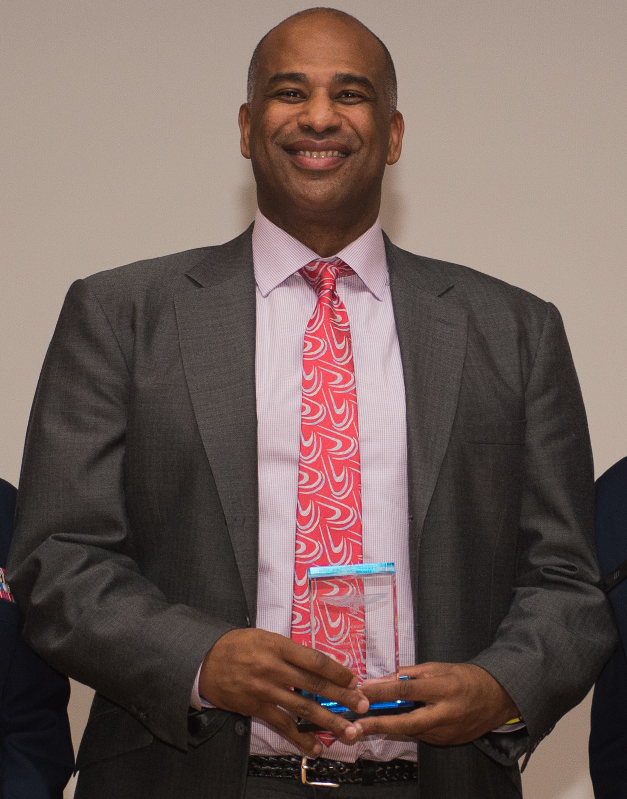 Wayne Gomes, former Major League Baseball player, poses for a photo after receiving an appreciation plaque from U.S. Air Force Staff Sgt. Carla Christie, 439th Supply Chain Operations Squadron A-10 weapon system manager (left), and Tech. Sgt. Kennesha Key, 441st Vehicle Support Chain Operations Squadron Air Force vehicle fleet support supervisor (right), during the Dr. Martin Luther King Jr. Day event at Joint Base Langley-Eustis, Va., Jan. 12, 2018. Gomes was a guest speaker for the event where he gave a speech about equality and the importance of what Dr. King stood for. (U.S. Air Force photo by Airman 1st Class Tristan Biese)